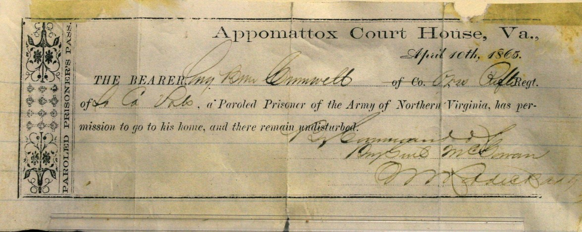 Paroled prisoners pass (1865, Appomattox)